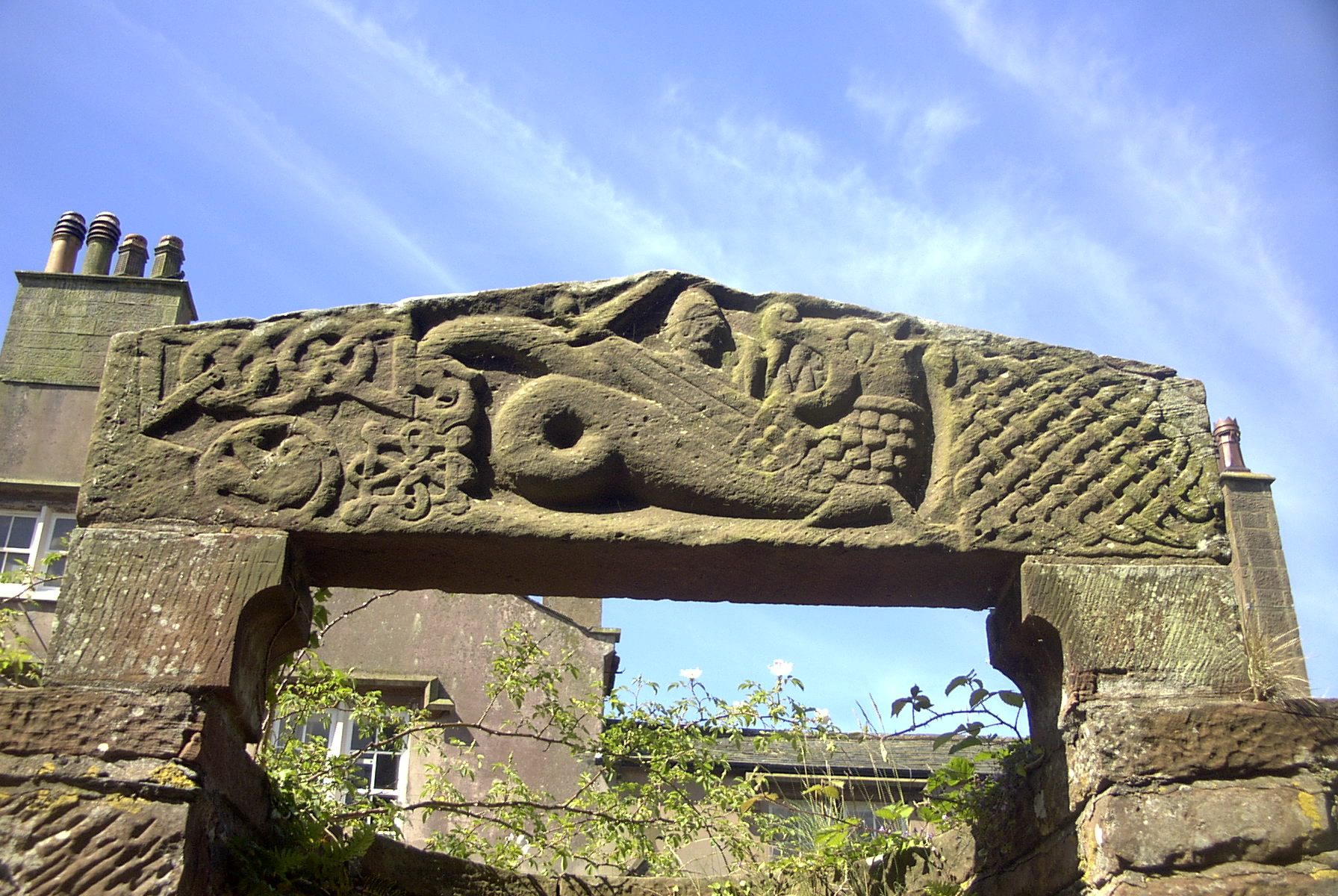 Romanesque lintel showing St Michael fighting a dragon. Date Ca. 1120 (Zarnecki)